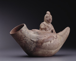 Moche ceramic dipicting act of fishing. Larco Museum Collection. Lima, Peru.